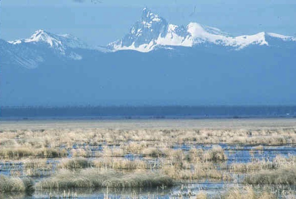 Mt. Thielsen see from the Klamath Marsh National Wildlife Refuge